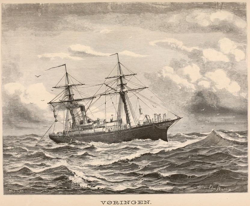 the DS Vøringen steamer, built 1861 in Norway, used in the 1876-78 Nordhavs-Expeditions (explorations of the Norwegian Sea by Henrik Mohn and Georg Ossian Sars).